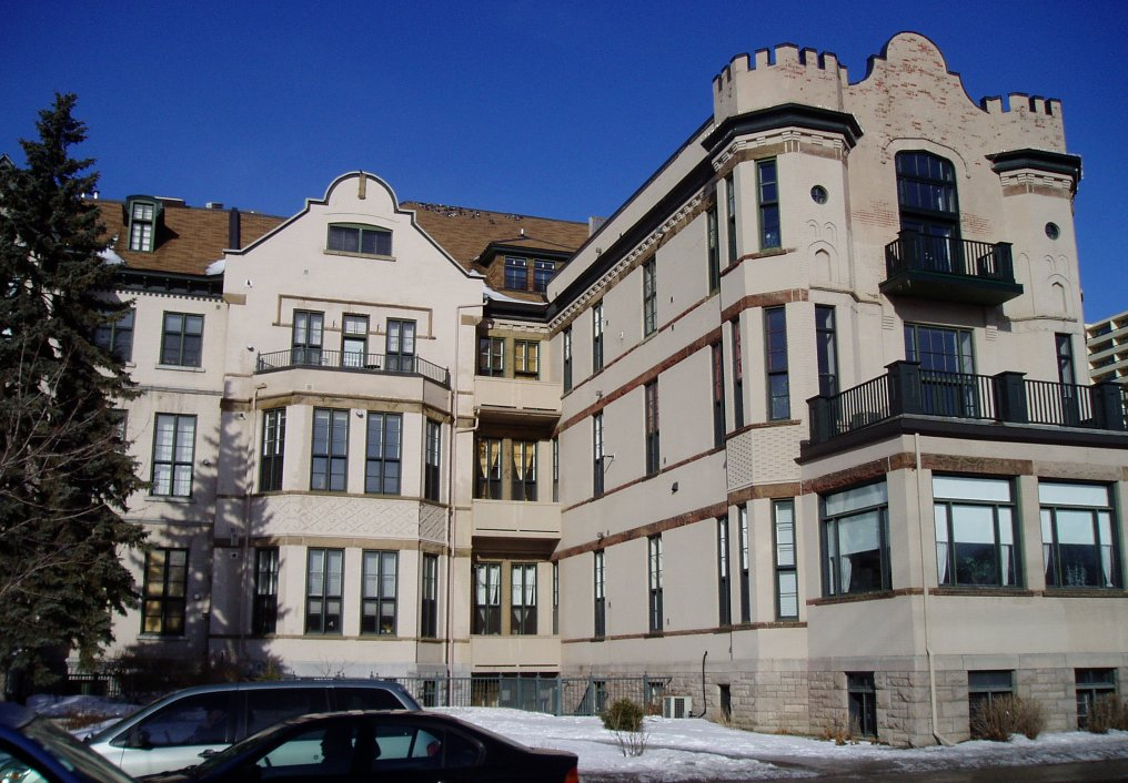 Taken by SimonP in January 2005